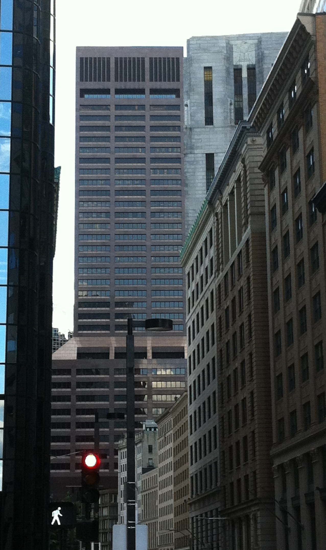 The First National Bank Building, a skyscraper in Boston. Known to locals as the "Pregnant Building."